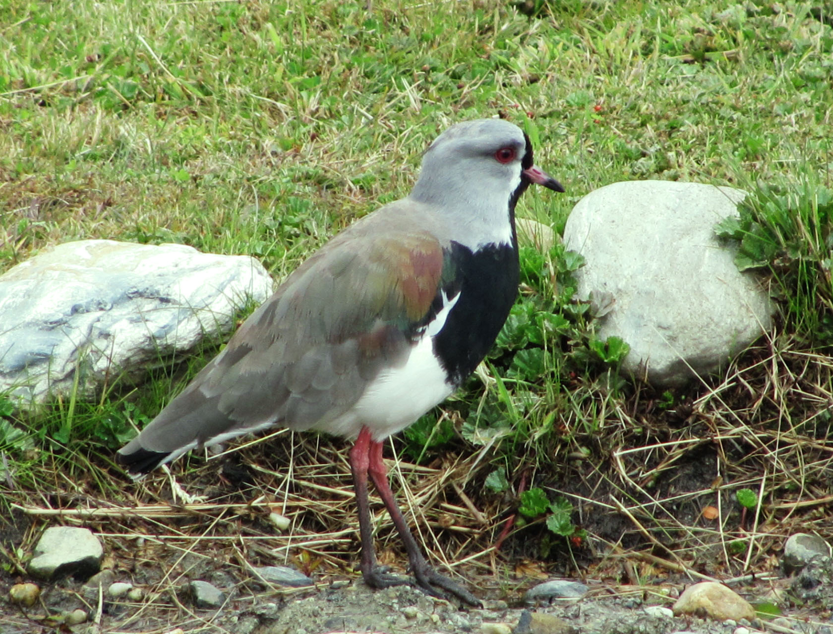 Vanellus chilensis in Ushuaia. Tierra del Fuego, Argentina